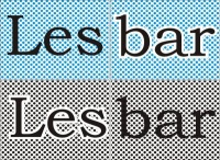 Example of lettering on maps. “Lesbar” is German for “legible”.